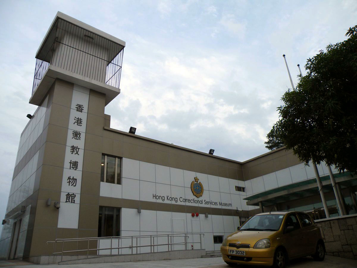 Hong Kong Correctional Services Museum